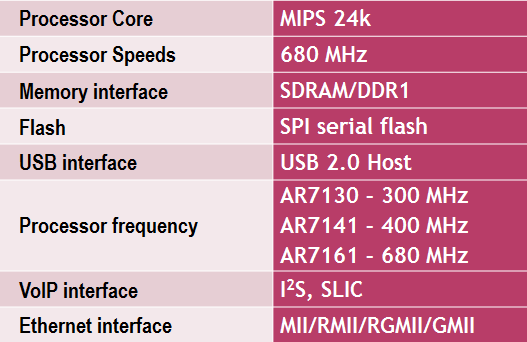 Atheros AR7161 architecture